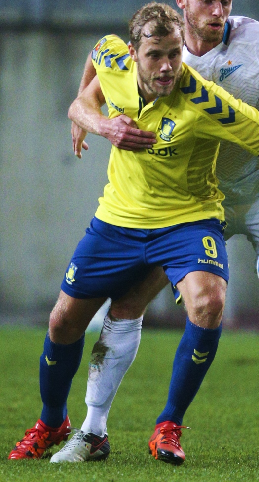 Teemu Pukki